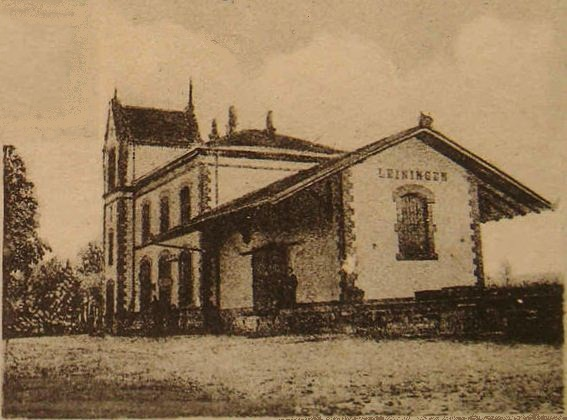 Poscard of the Railway station of Leiningen in Lorraine (Léning) 1917